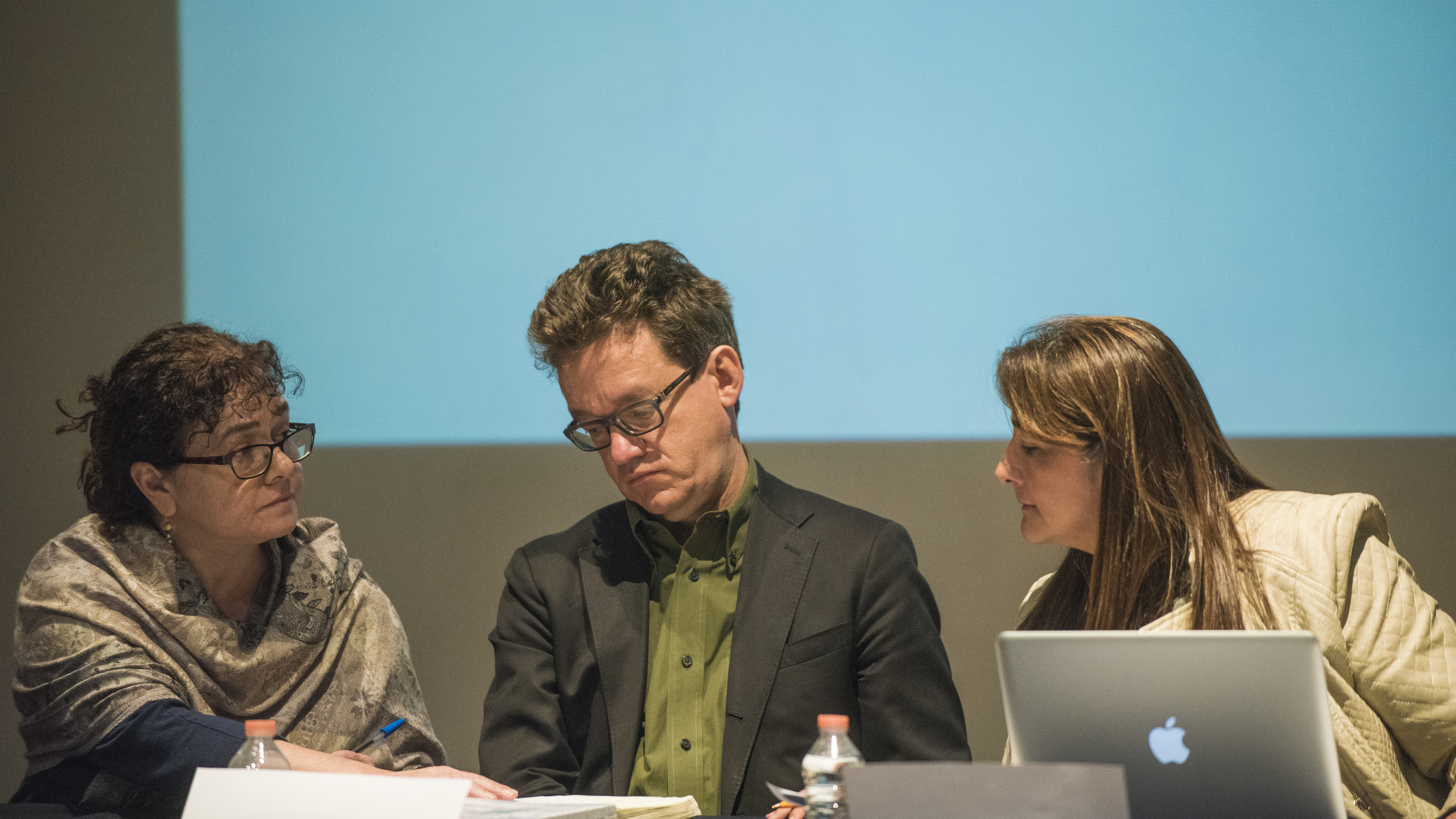 Claudia Paz y Paz, Alejandro Valencia and Ángela María Buitrago exchange information during a press conference. The Interdisciplinary Group of Independent Experts (GIEI) is a committee of jurists and physicians conducting a parallel investigation into the events that took place on the night of the 26th of September and early morning of the 27th of September 2014 in the community of Iguala (Guerrero, Mexico), where young students were attacked and disappeared.